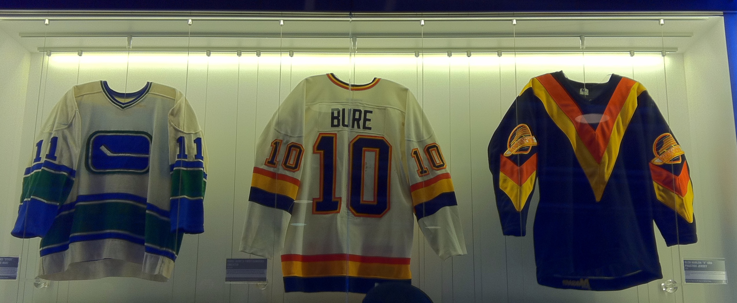 Game-worn jerseys belonging to Wayne Maki, Pavel Bure and Glen Hanlon of the Vancouver Canucks on display at Rogers Arena.